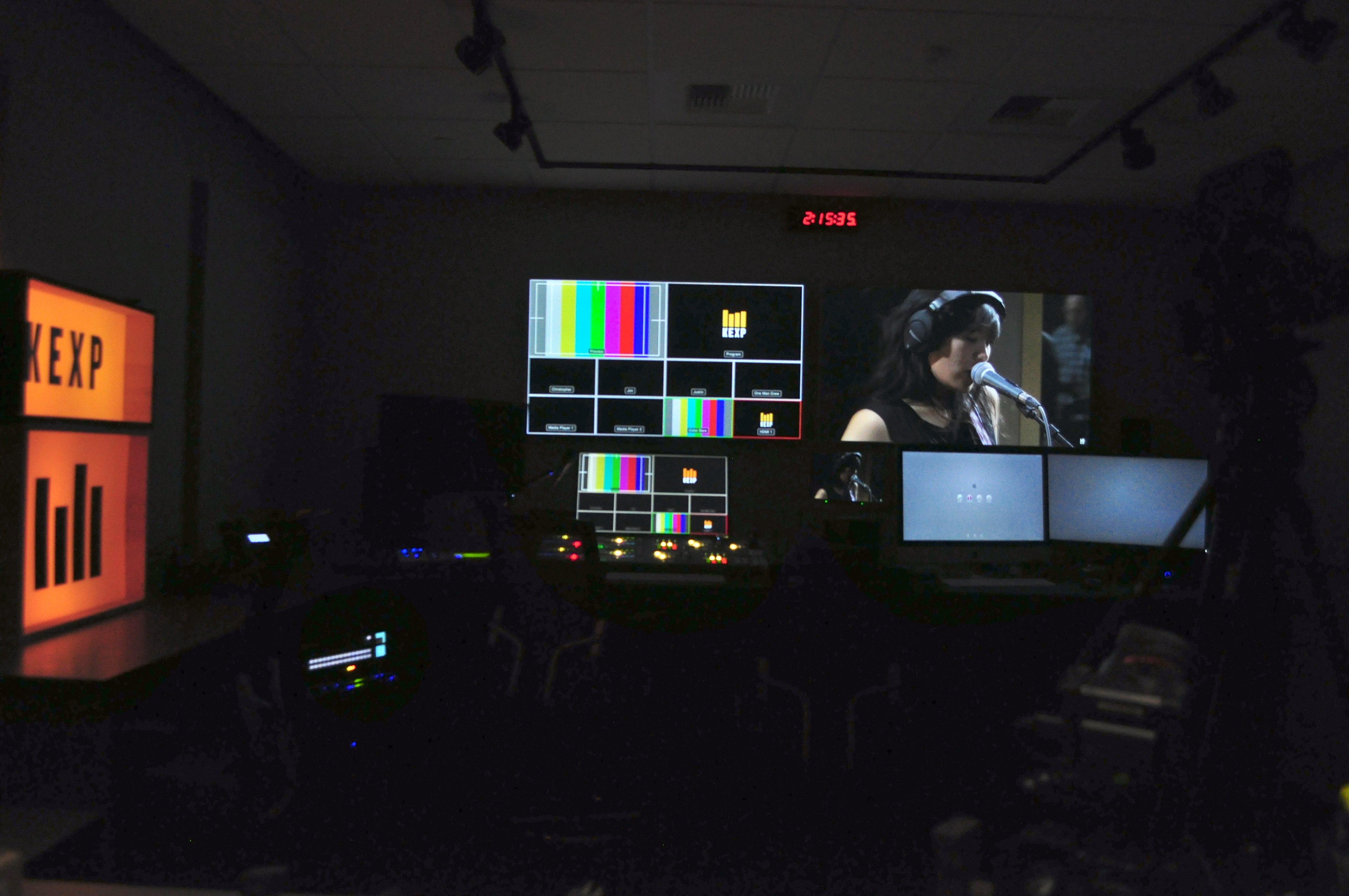 Video editing room, KEXP studio, Seattle Center, Seattle, Washington. This photo was taken in the inaugural week of the new studios.